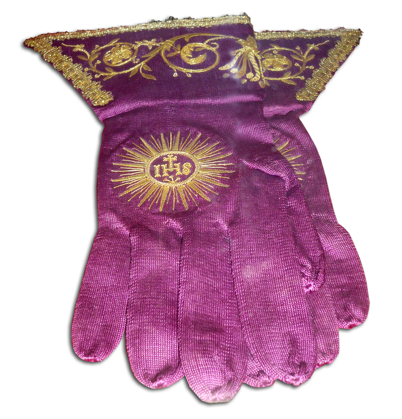 Pontifical gloves (purple)